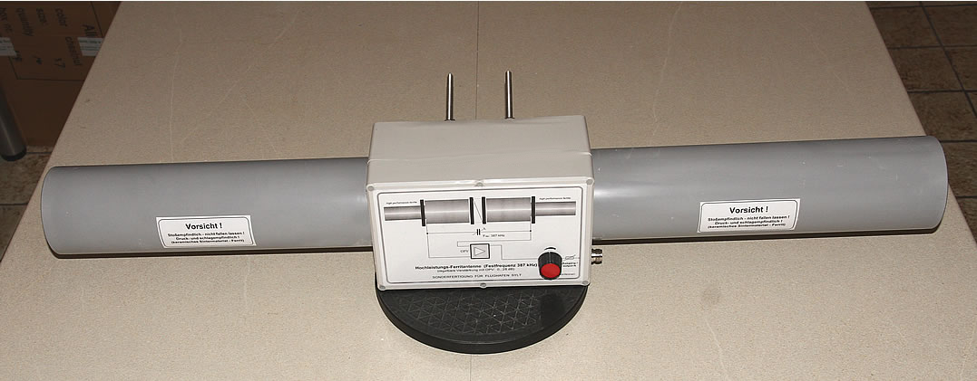 Ferrite rod antenna for non-directional beacon (NDB), frequency 255 - 526.5 kHz, air navigation, with dimensions: length 100 cm, diameter of the ferrite 10 cm, weight 16 kg; one of the biggest ferrite antennas of the world.